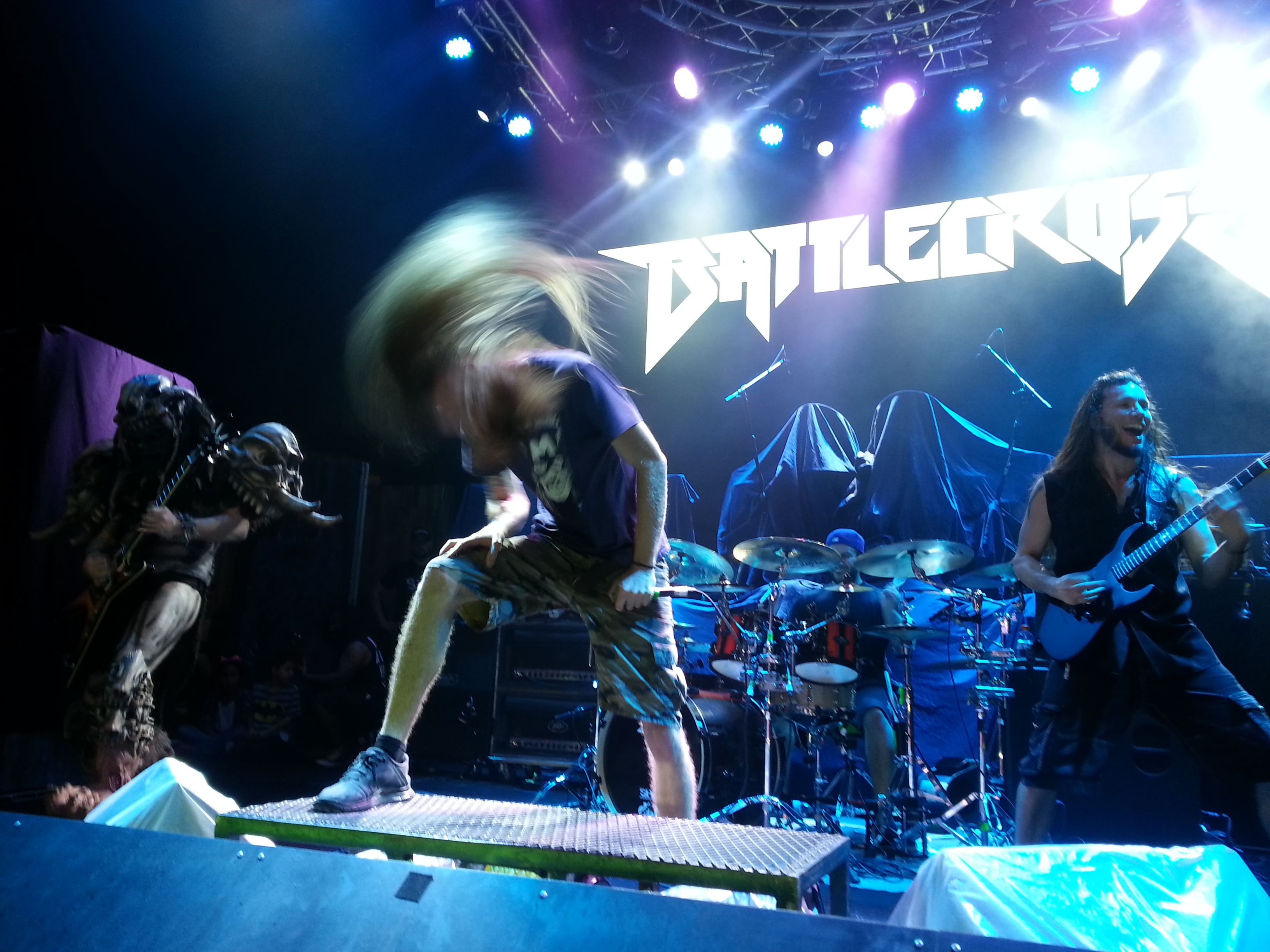 Battlecross